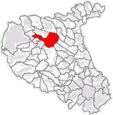 Limits of commune within Vrancea County